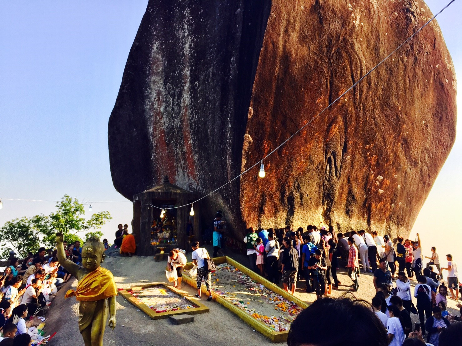 อุทยานแห่งชาติเขาคิชฌกูฏ